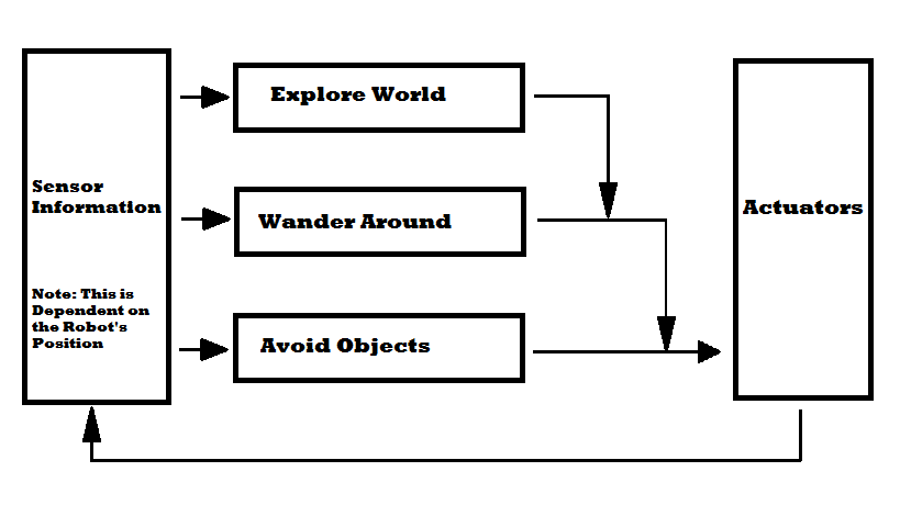 This is an abstract diagram of an subsumption architecture.